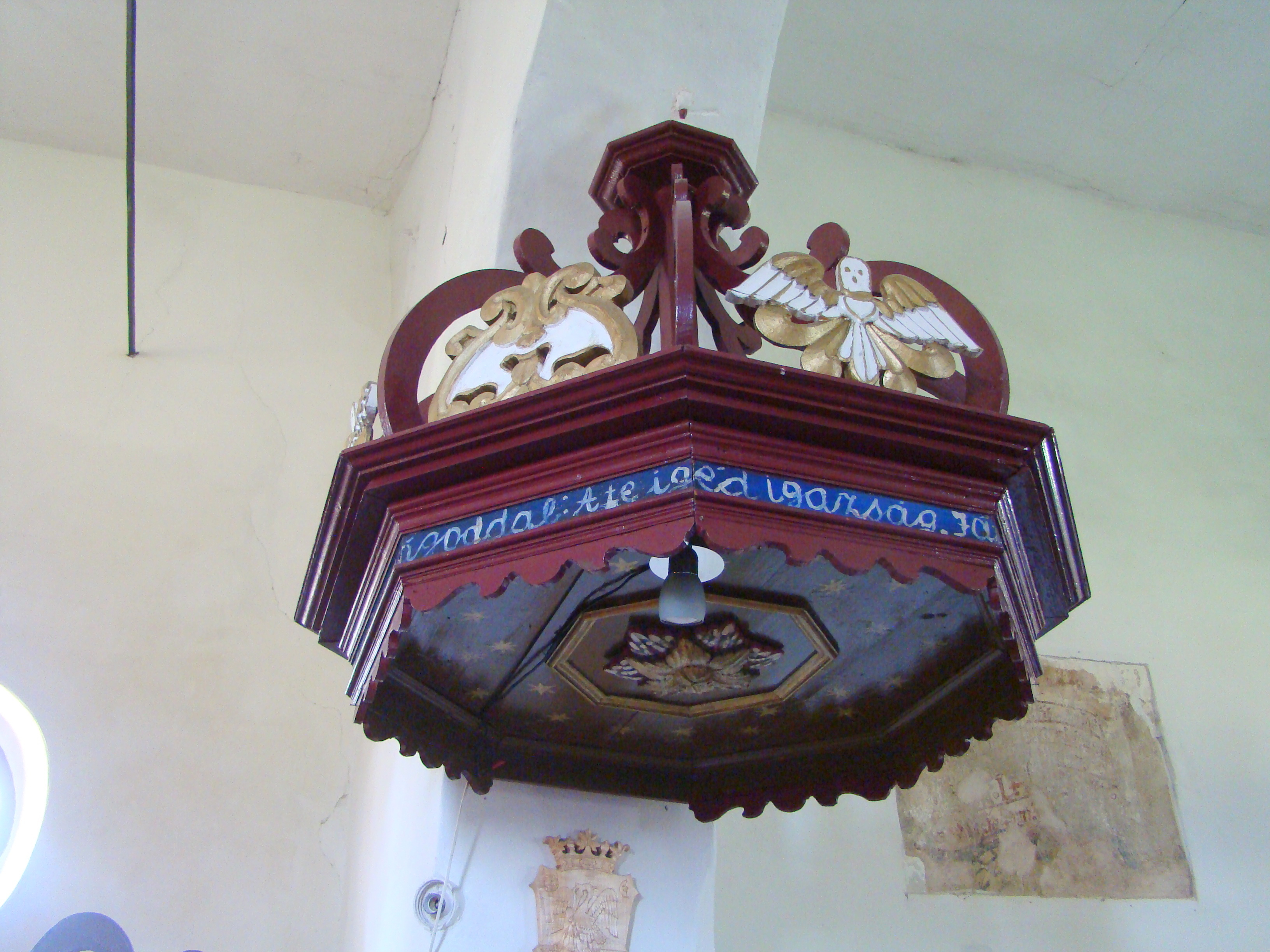 Reformed church in Alma, Sibiu county, Romania